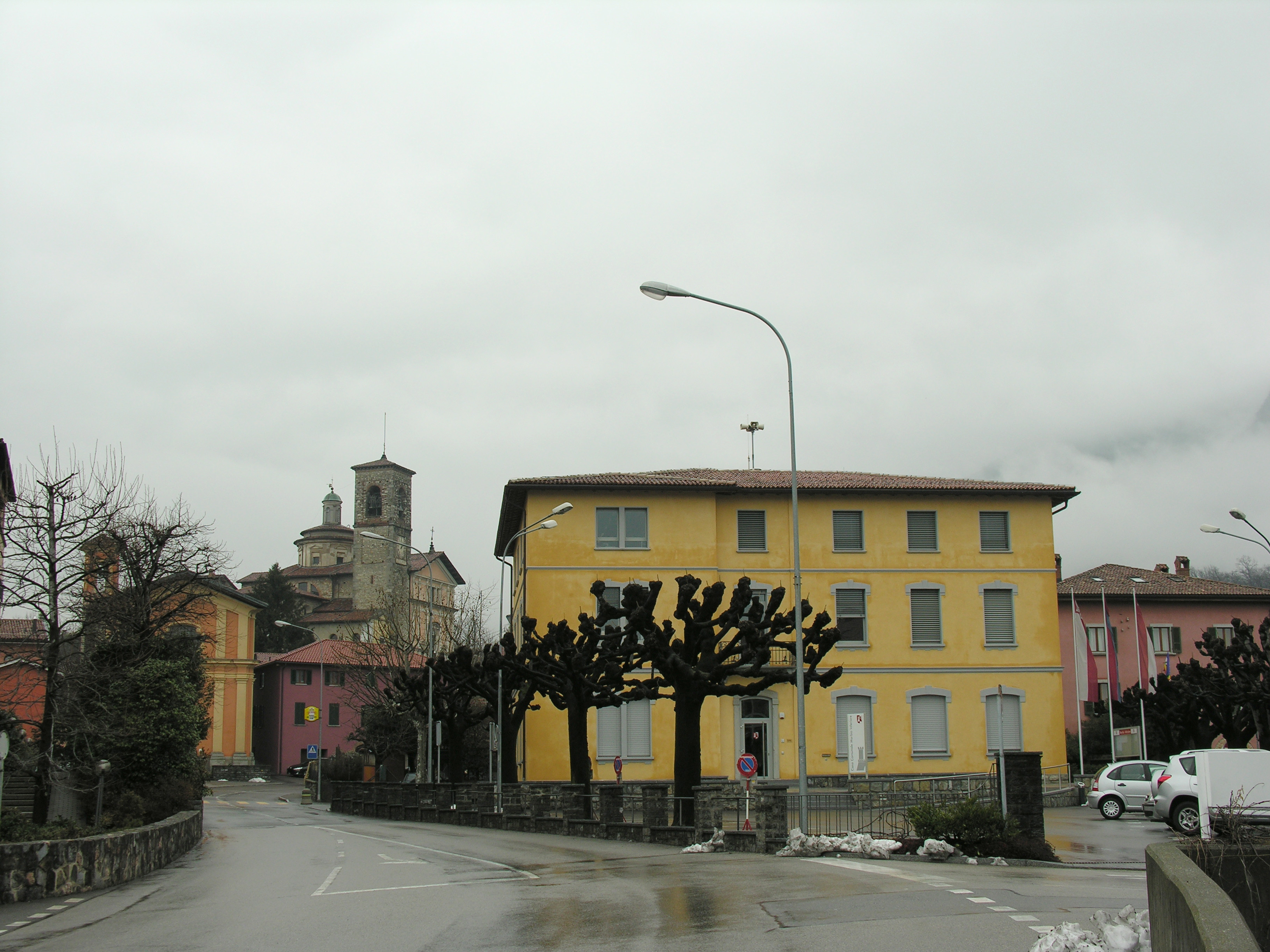 Downtown of Morbio Inferiore, Tessin, Switzerland